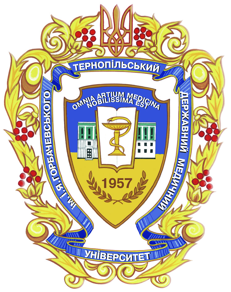 Logo of Ternopil State Medical University